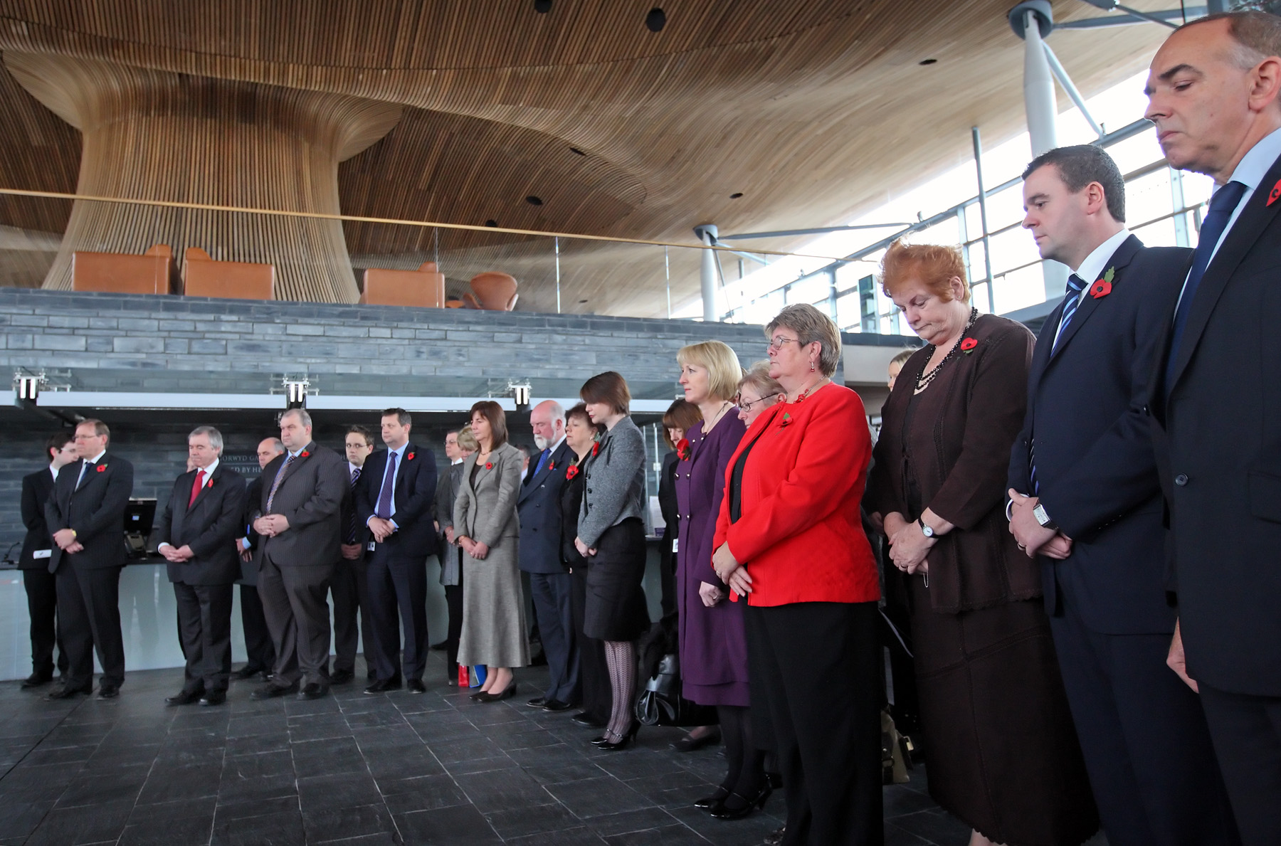 Remembrance Sunday Silence, Senedd 2009